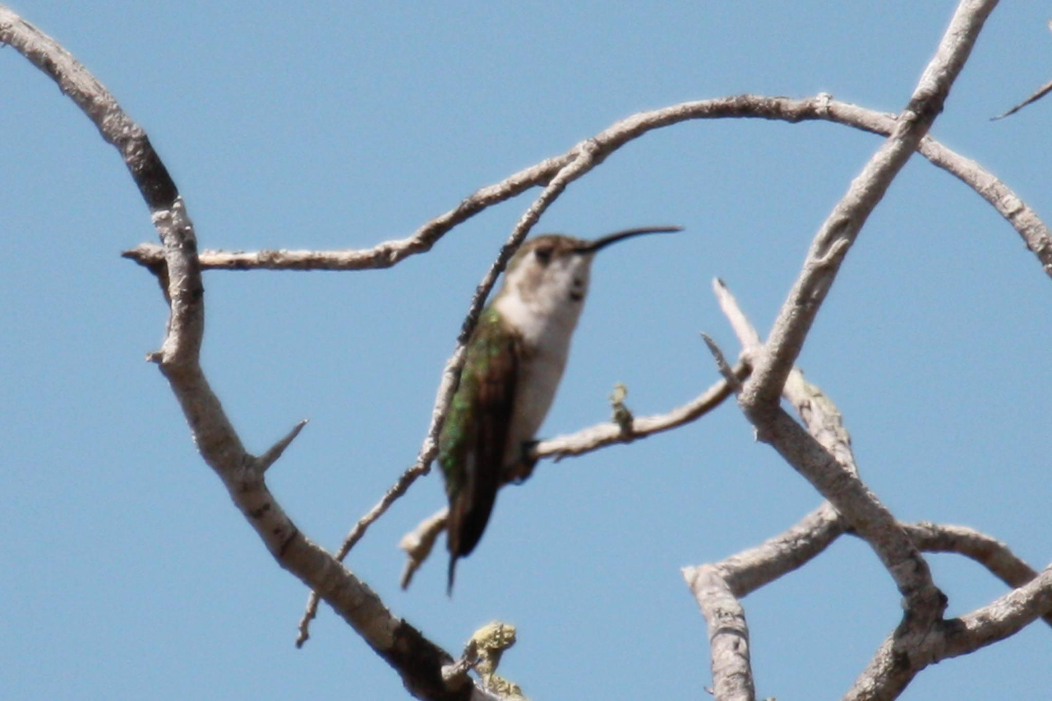 Mexican Sheartail (Doricha eliza). Fairly grim record shot of a female of the species. Described by Howell as "unmistakable in range; note long, arched bill".